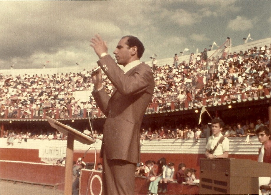 domingo p